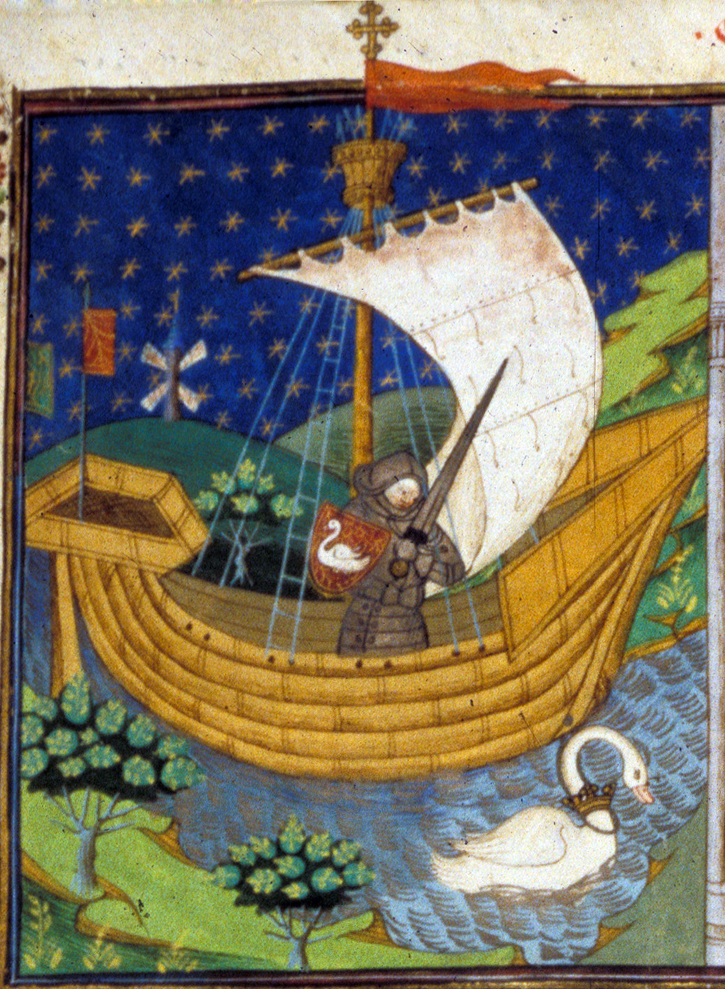 The Knight of the Swan. A knight in a boat drawn by a swan. Detail of a miniature, manuscript British Library, Royal 15 E VI ("Talbot Shrewsbury Book"), folio 273r (first page of Chanson du Chevalier au Cygne). Held and digitised by the British Library.